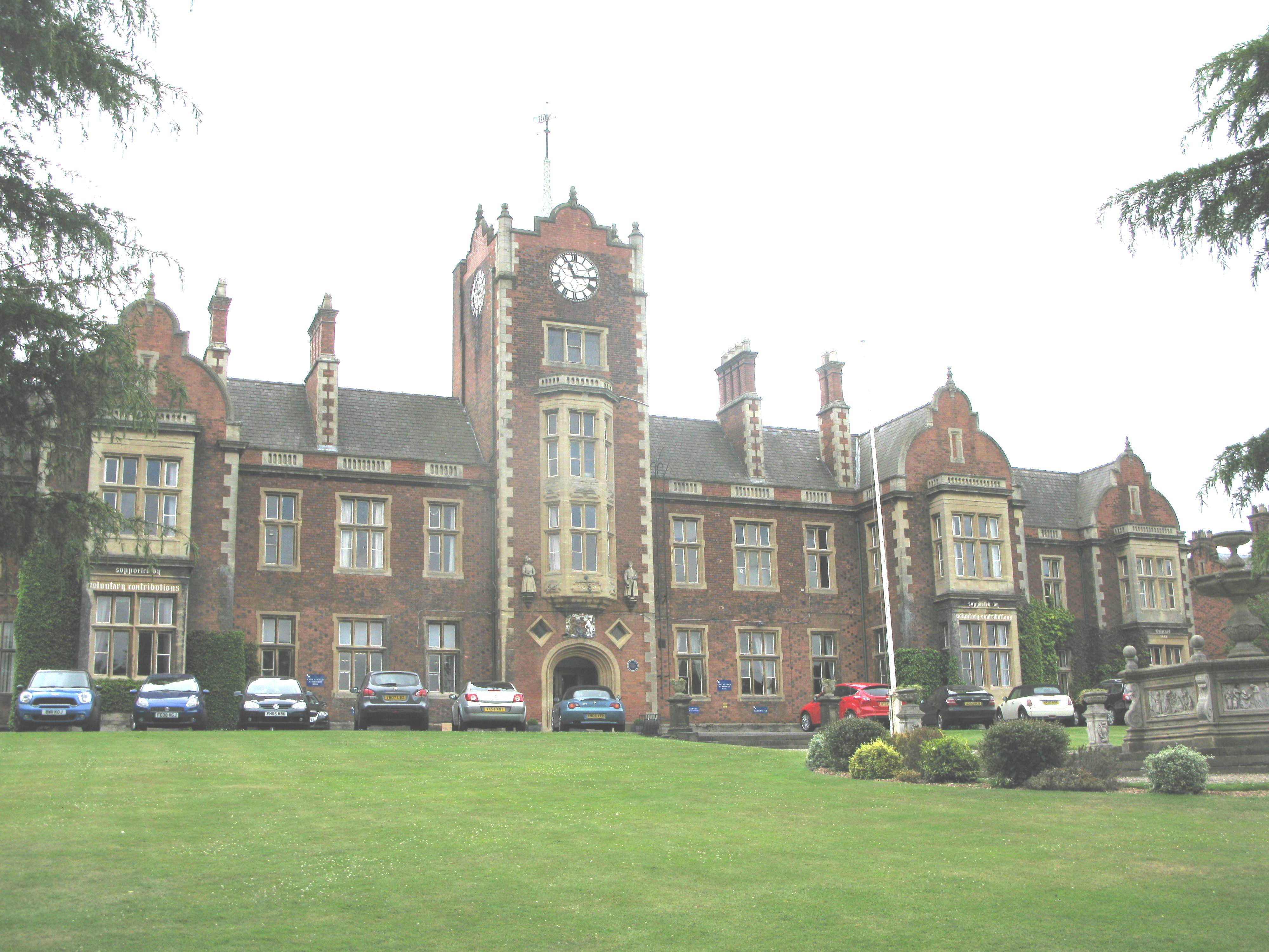 Grade II